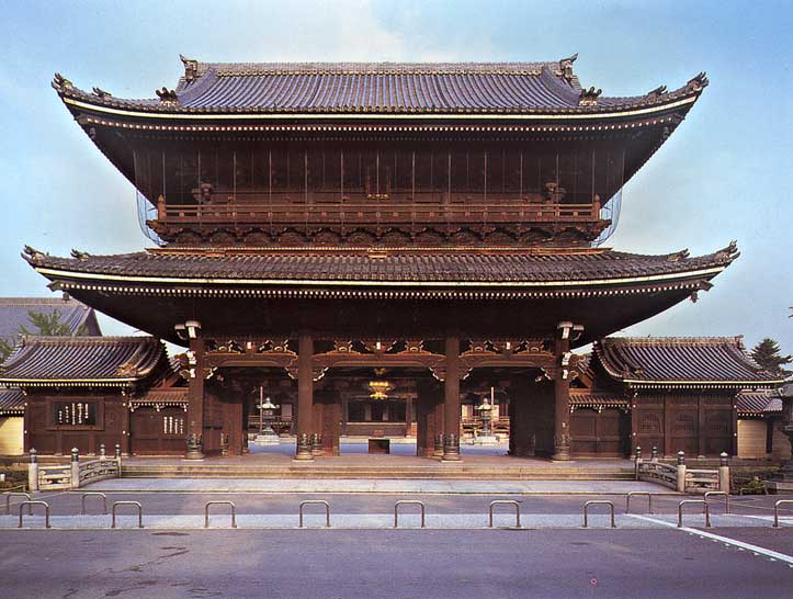 Higashi Honganji - Founder's Hall Gate (Goei-do Mno), built in 1911